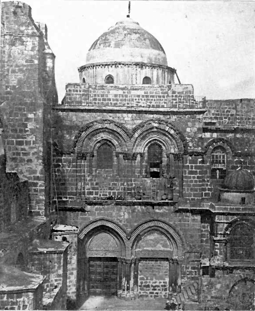 Holy sepulcher 1906